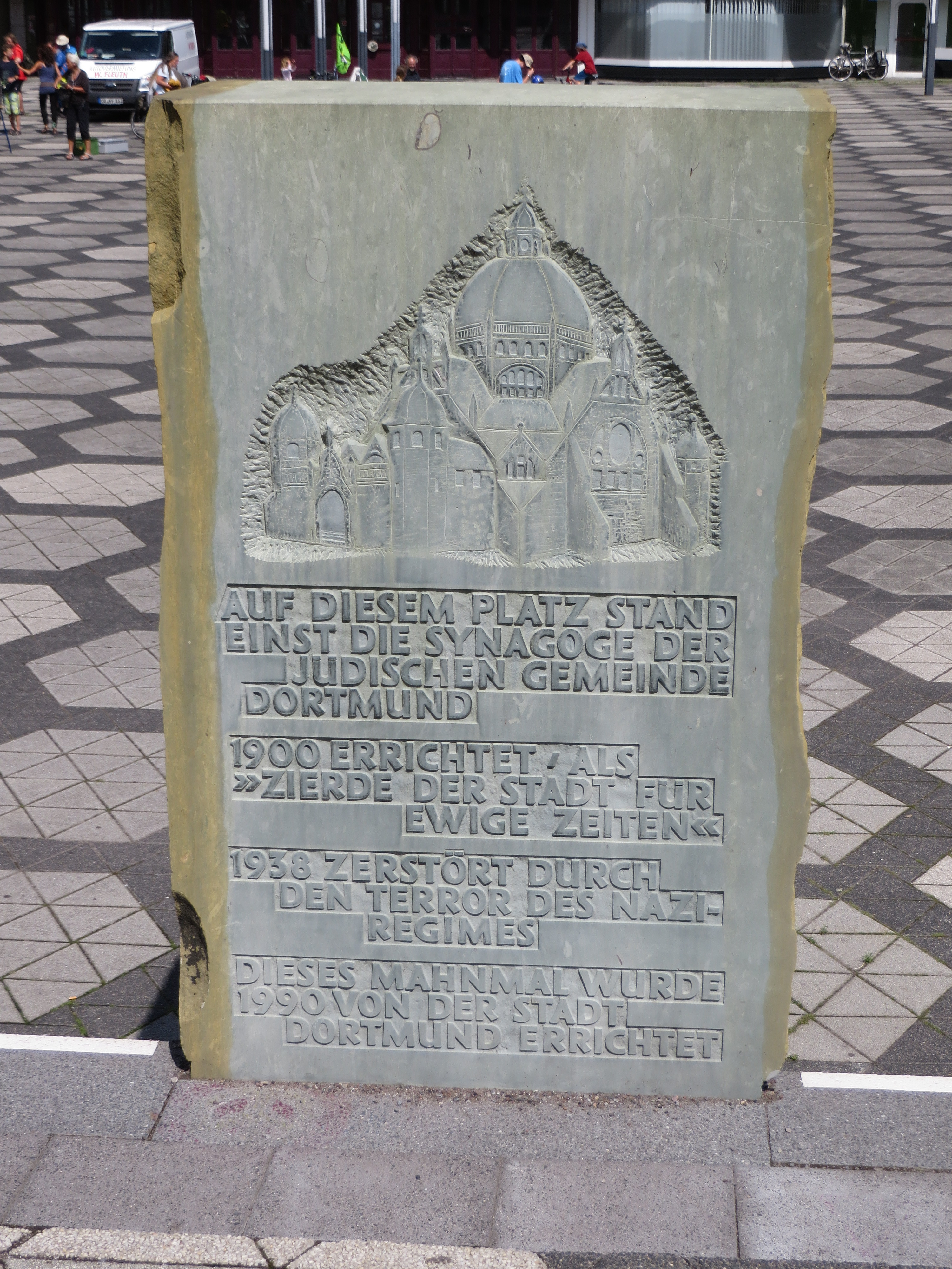 Memorial for Old Synagogue in Dortmund, Germany, south sideEsperanto: Monumento pro Maljuna Sinagogo en Dortmund, Germanio, suda flanko